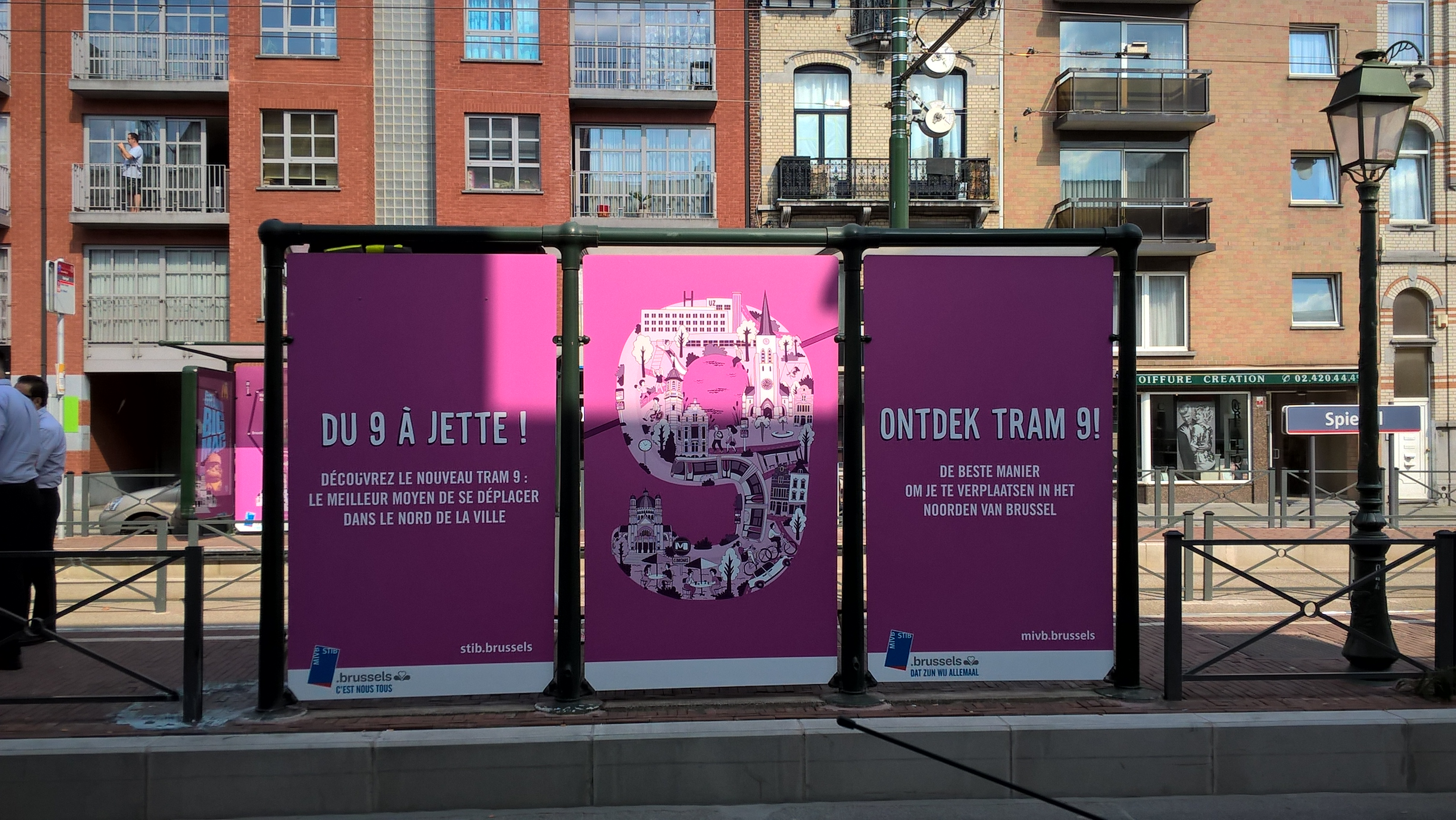 'Du 9 à Jette' - Advertisement for opening of tramline 9 at 'Miroir' stop, Avenue de Laeken, Brussels, on 1 September 2018